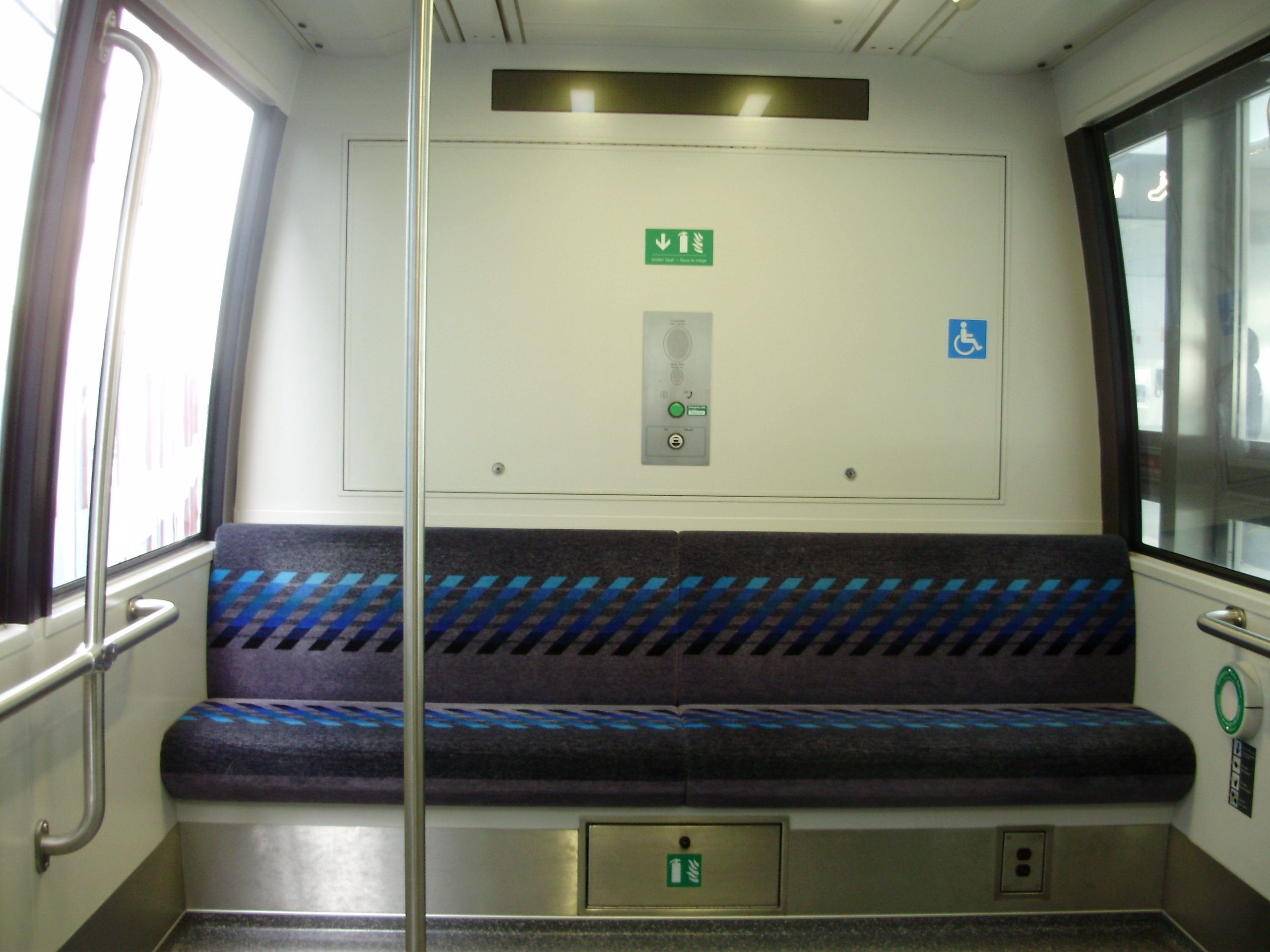 The interior of a LINK Train car at Toronto Pearson International Airport in Toronto, Canada.